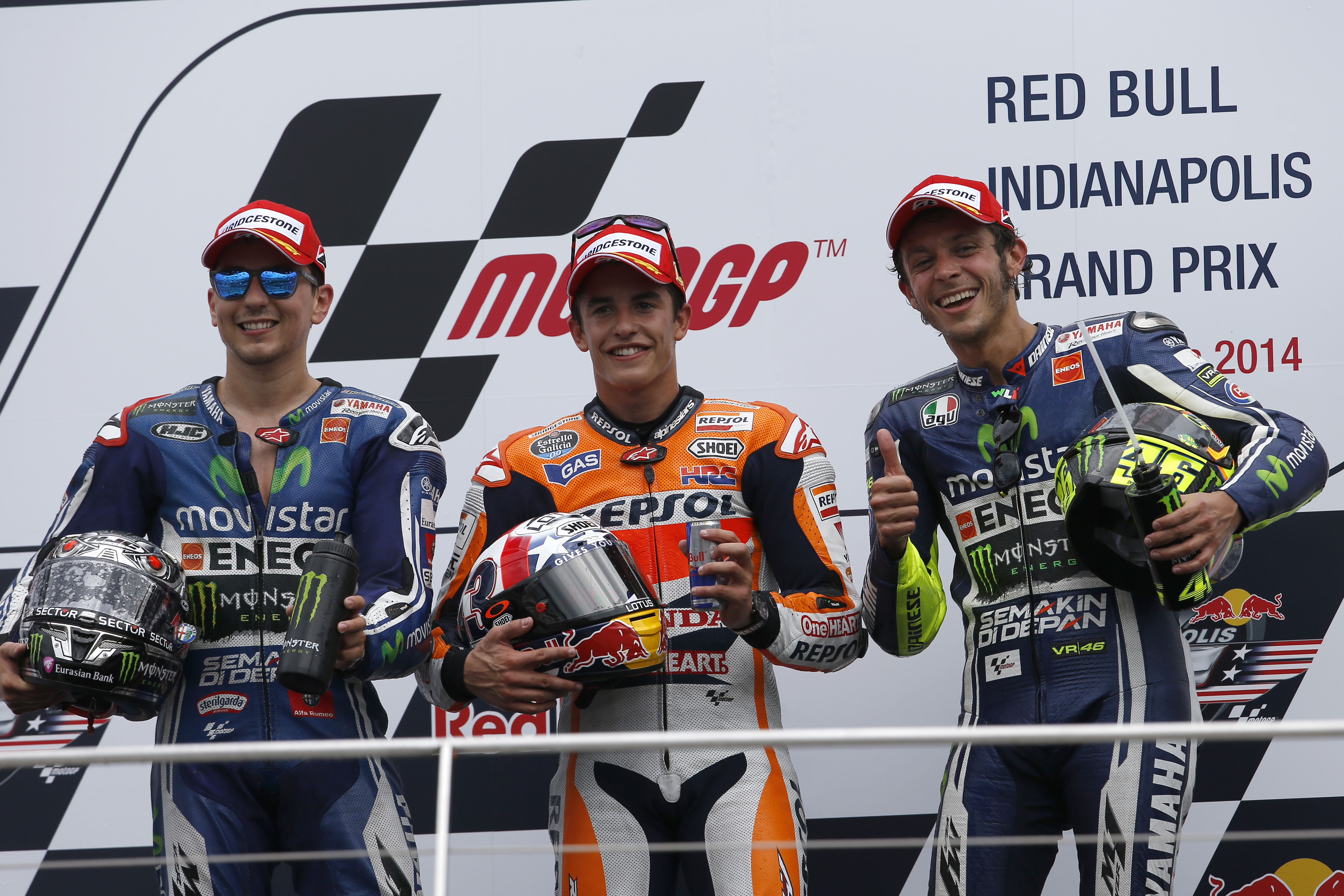 Jorge Lorenzo, Marc Márquez and Valentino Rossi, posing for photographs and celebrating on the podium after finishing in second, first and third place at the 2014 Indianapolis Grand Prix.